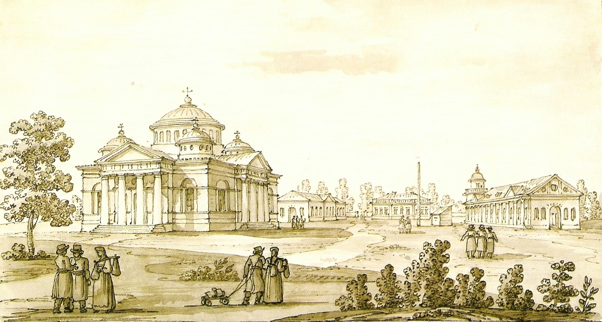 View of town Sophia and St. Sophia Cathedral